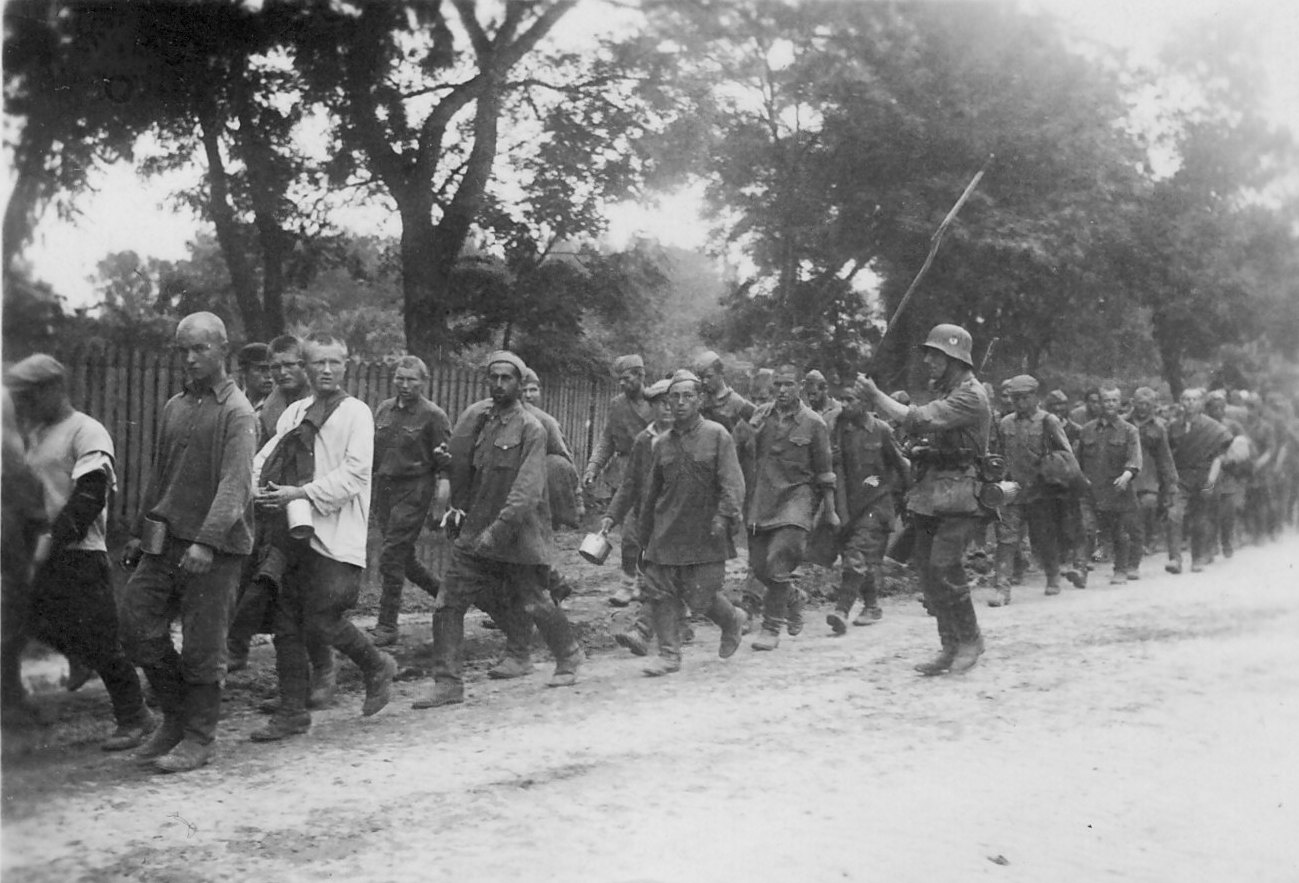 Russian POW's on the way to German prison camps.